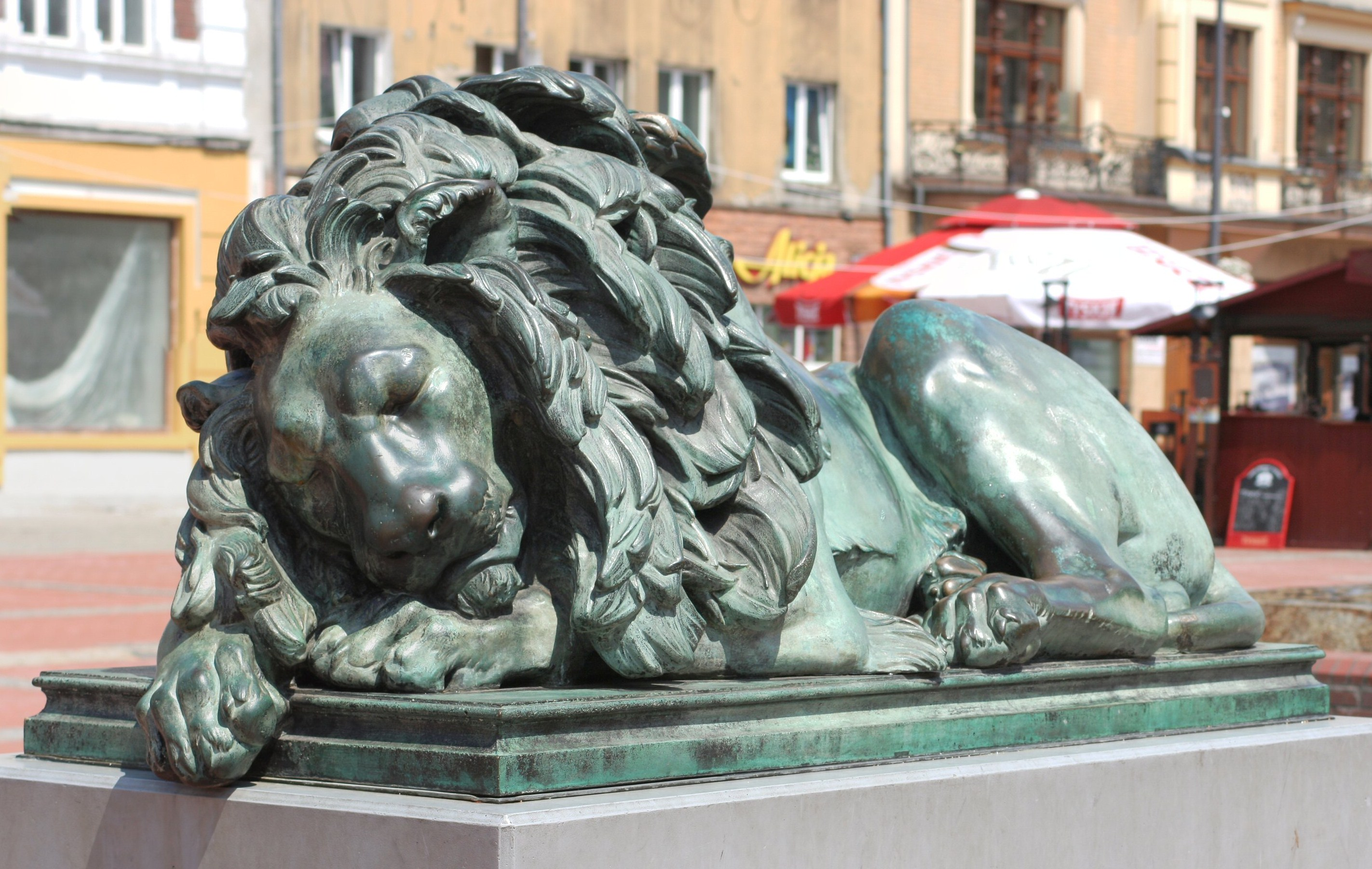 Sculpture "Sleeping lion" by Theodor Kalide on Market Square in Bytom.